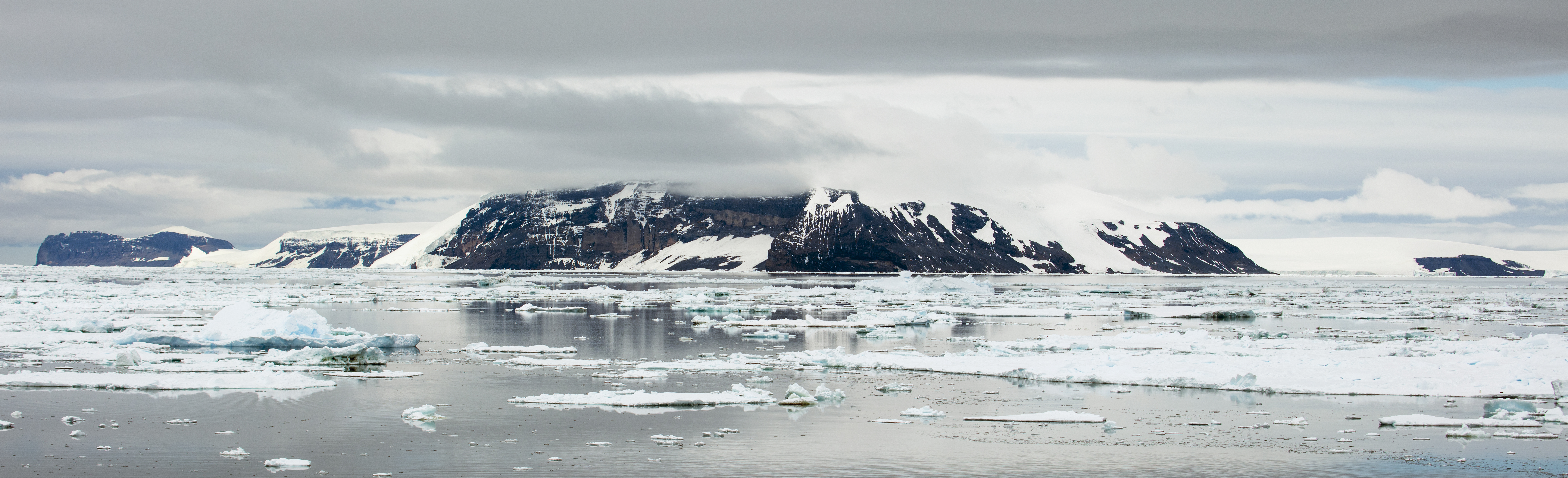 Brown Bluff (seen from the Antarctic Sound), Tabarin Peninsula, Antarctic Peninsula